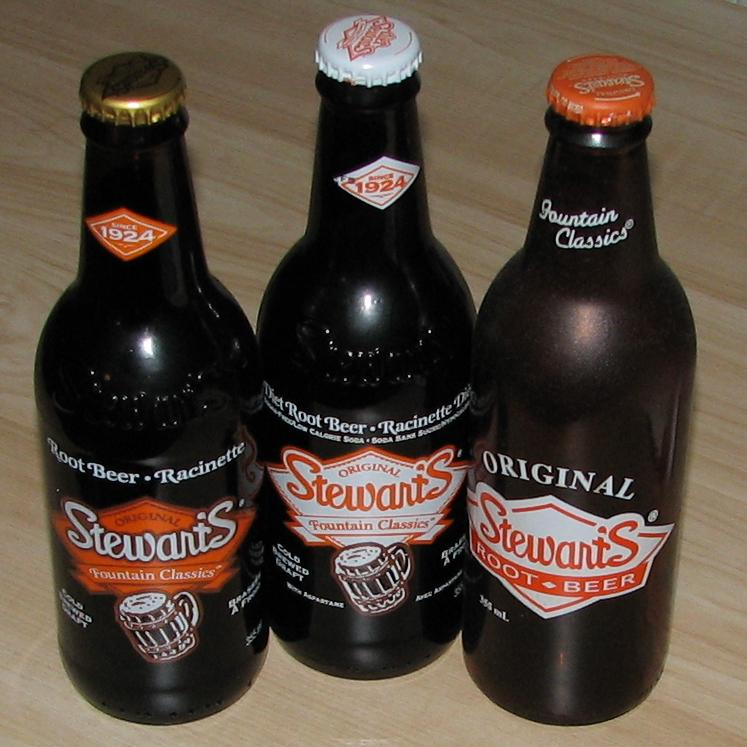 Stewart's root beer bottles from the Michael A. Dorosh collection.